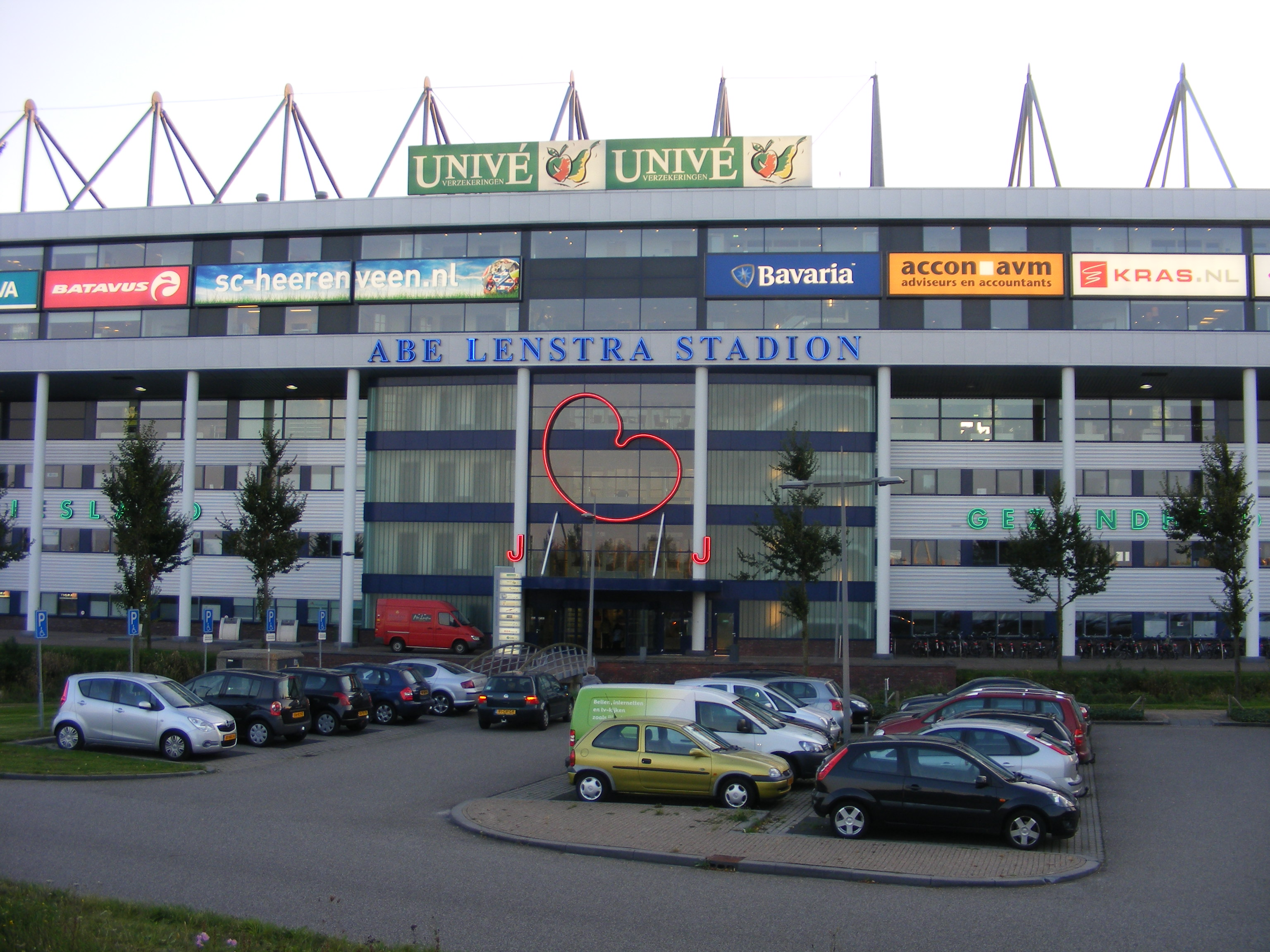 The back of the Abe Lenstra Stadion